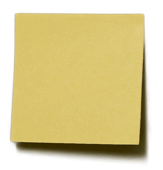 Post-It note with white background. (Super-sticky genuine original 3M version!)